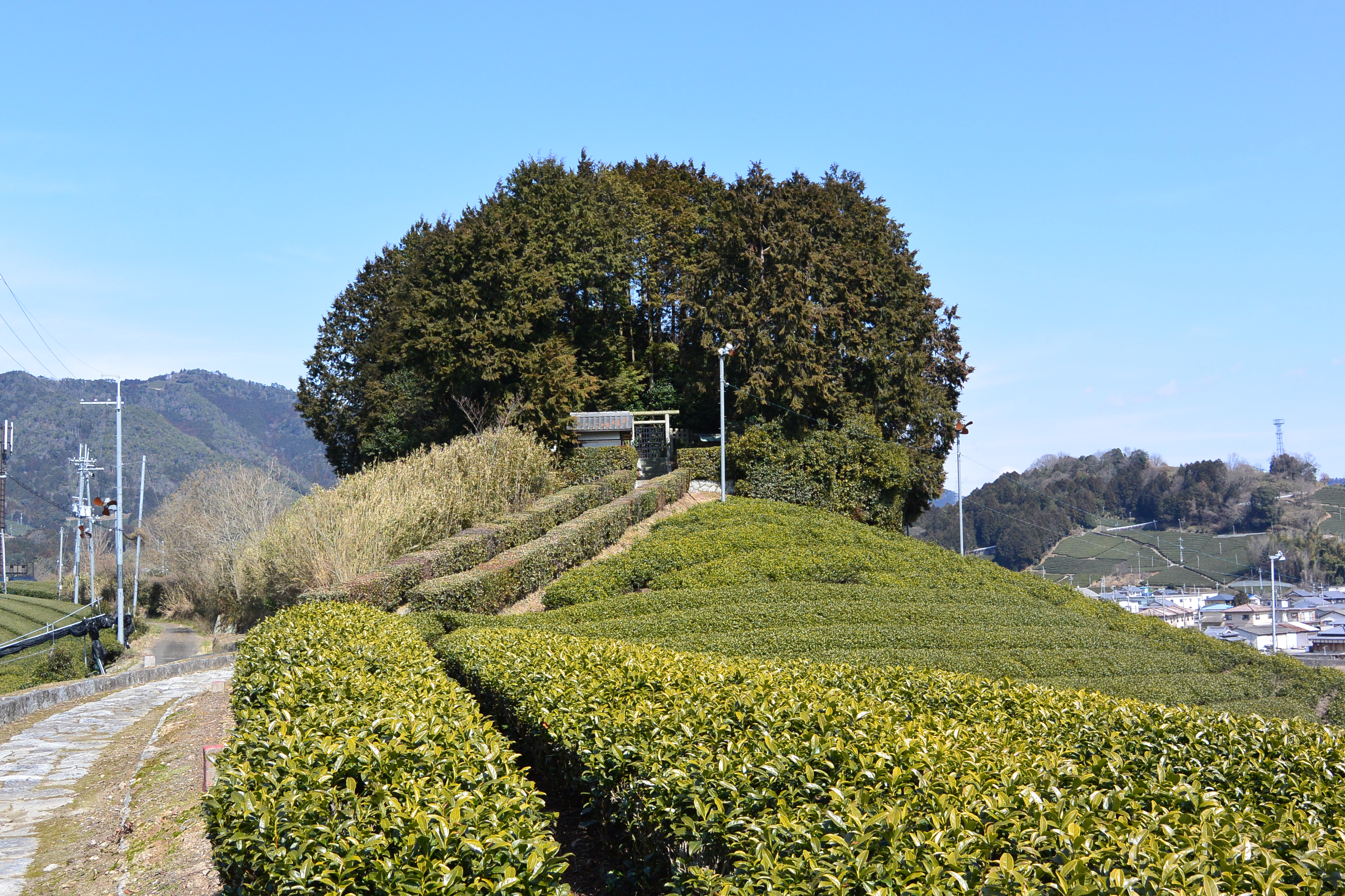 the tomb of Asakasinnnou, Wazuka town kyoto